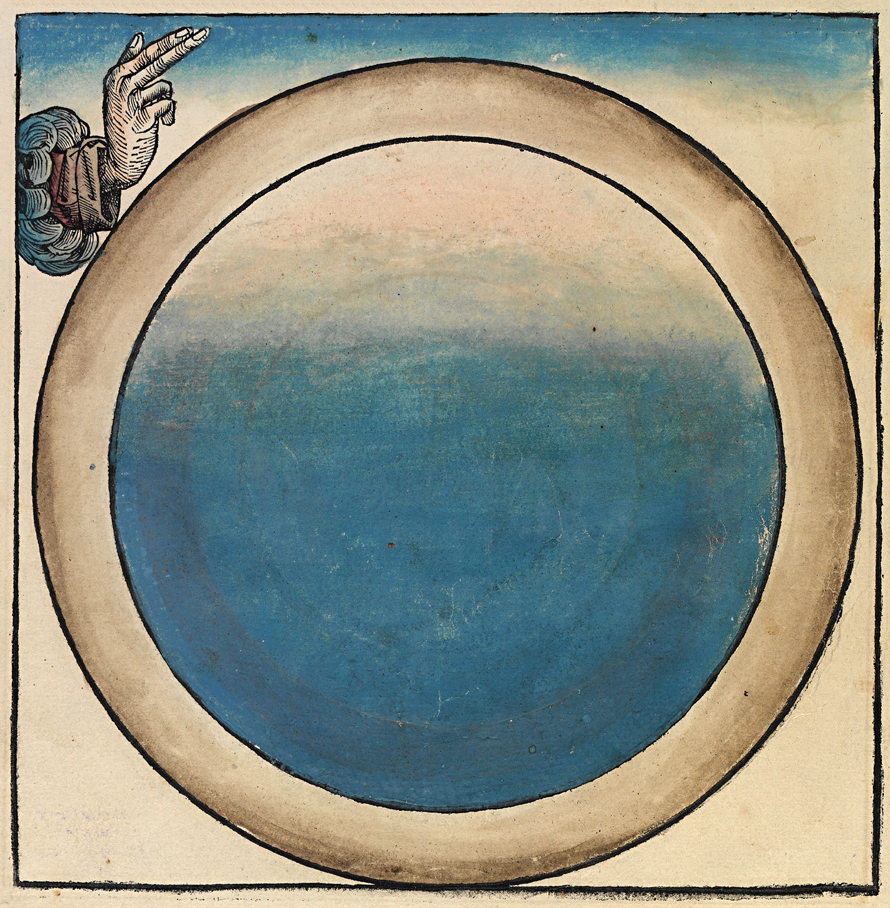 This is a part of a scan of an historical document: Title: Schedelsche Weltchronik or Nuremberg Chronicle